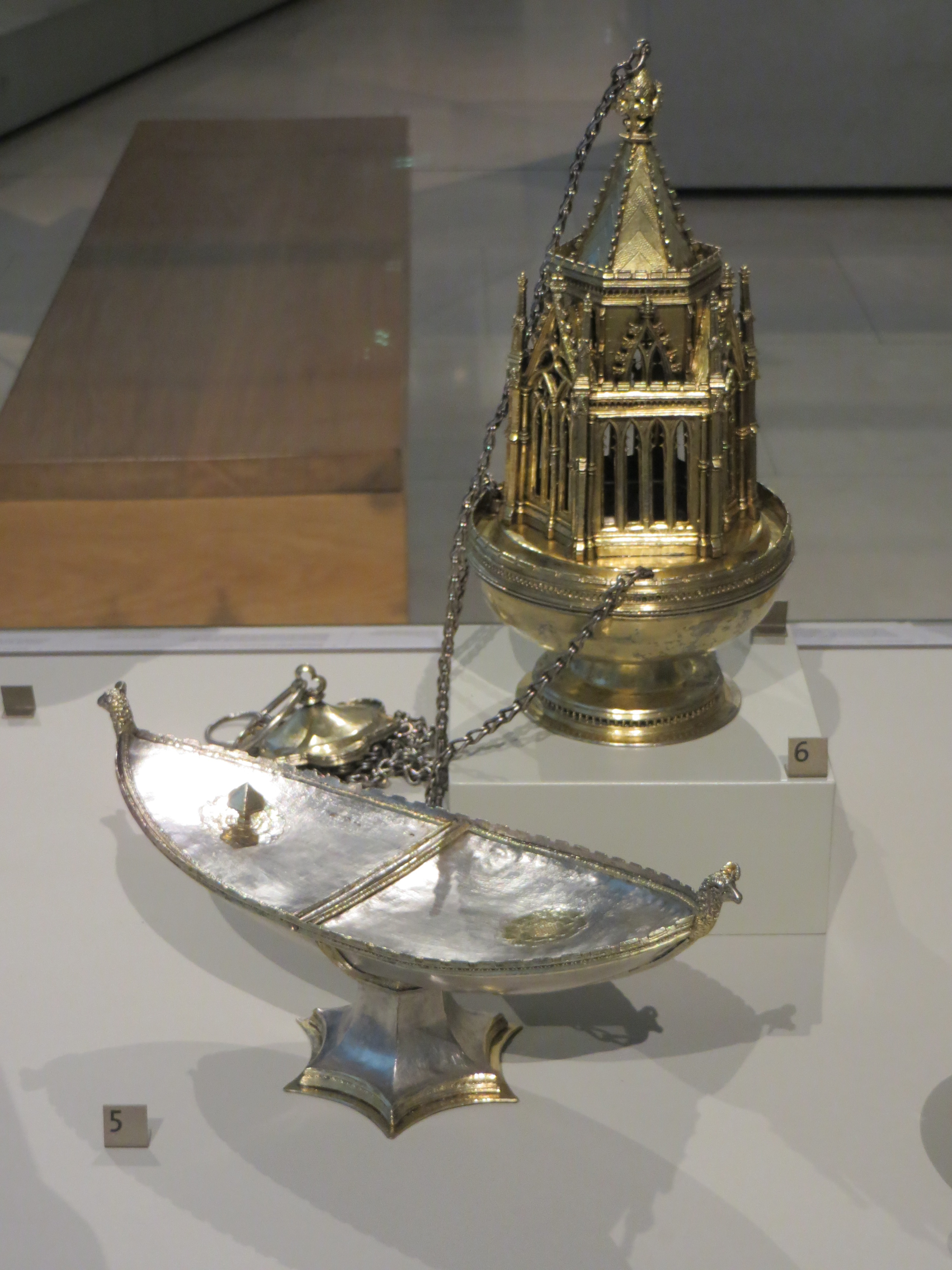 Ramsey Abbey Censer and Incense Boat in the Victoria and Albert Museum